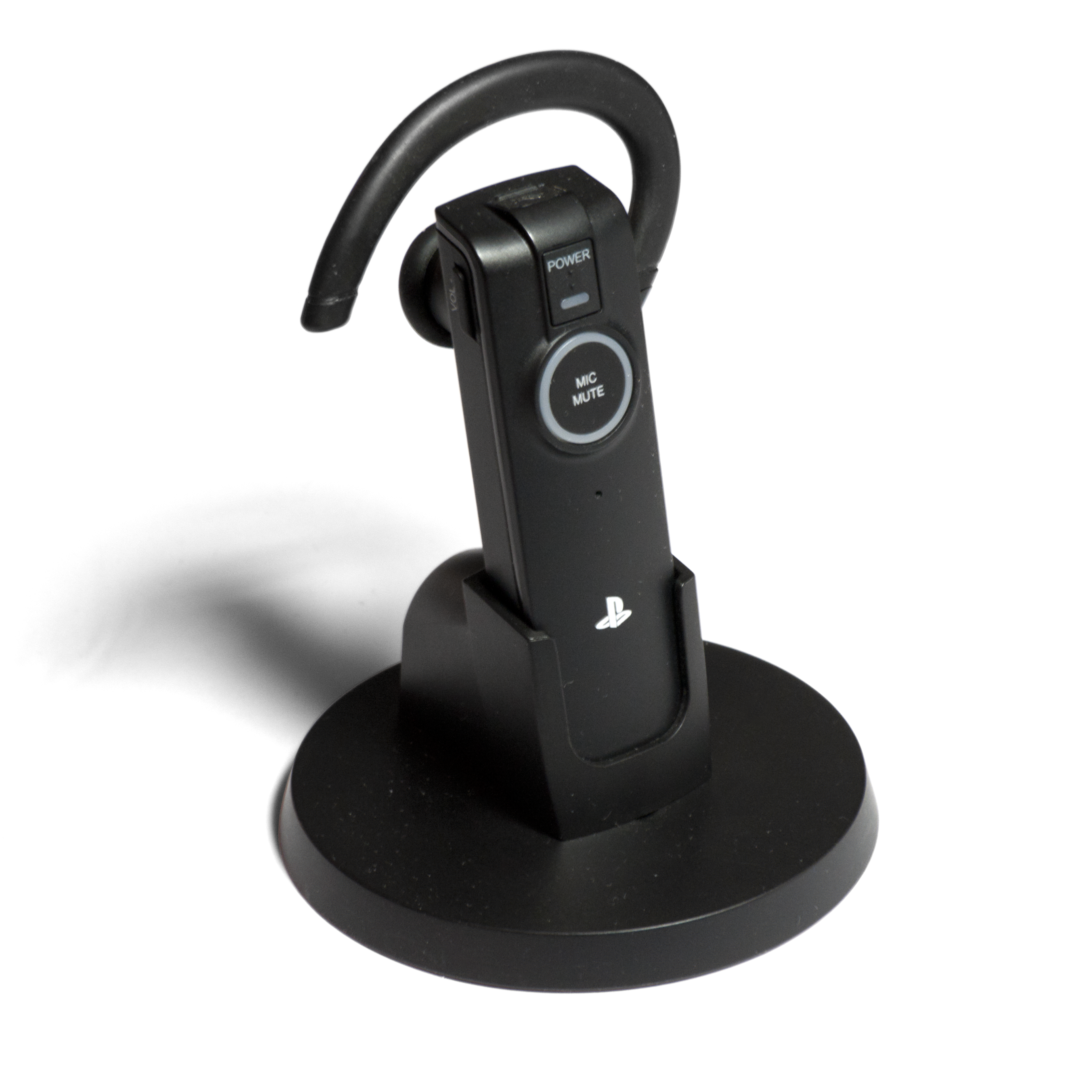 Bluetooth wireless headset for the PlayStation 3 games console. Also works with other bluetooth enabled devices